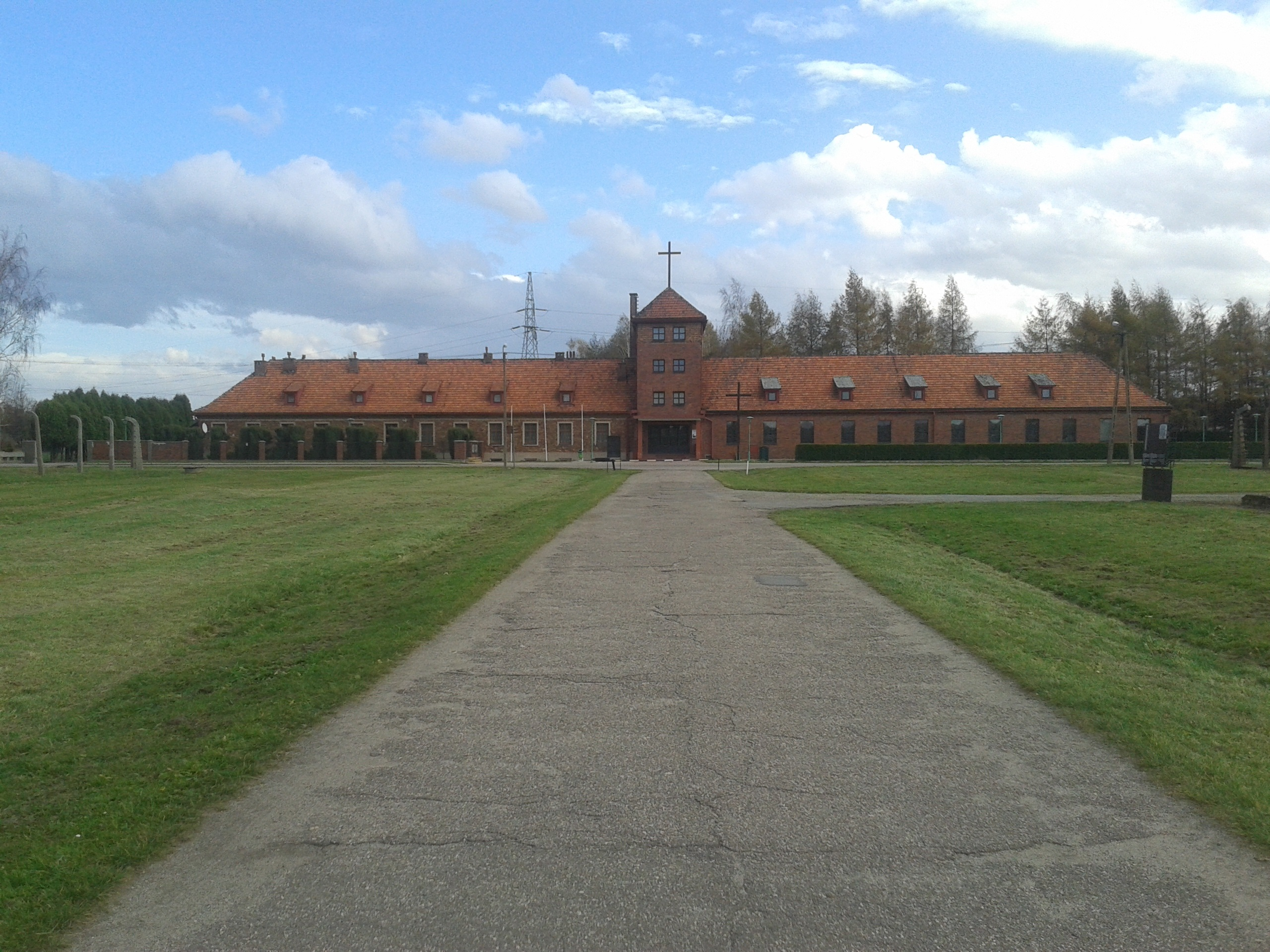 Auschwitz-Birkenau, building of former "Kommandantur II", 2018.